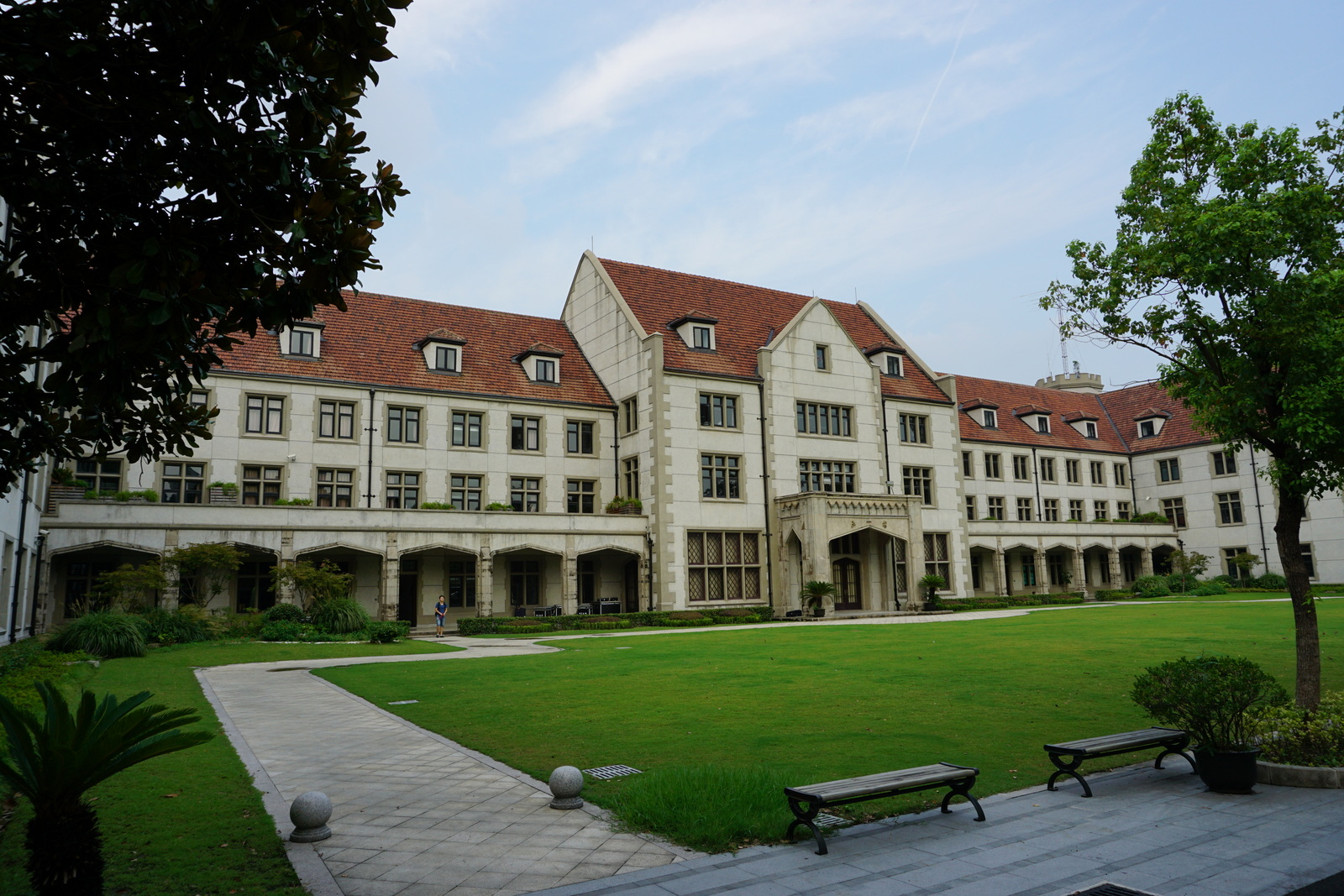 Shanghai No. 3 Girls' High School, Five-One lecture hall